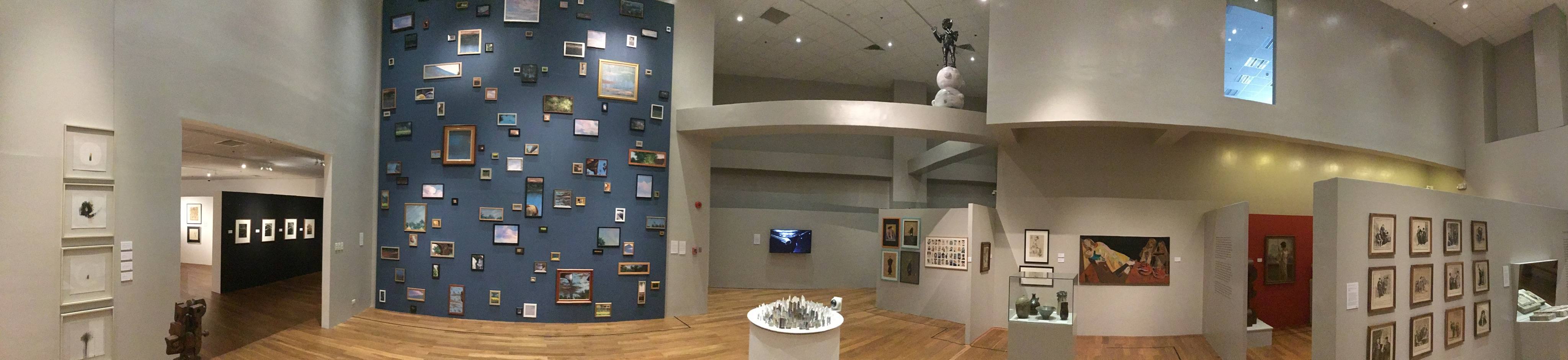 Ateneo Art Gallery Panorama